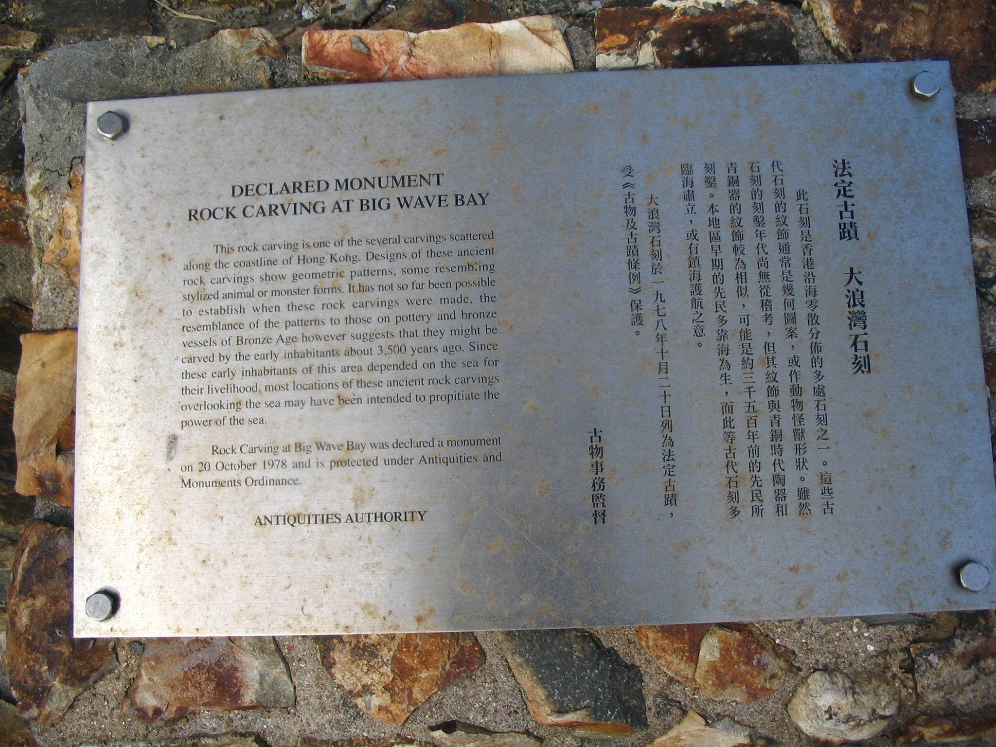 Photo of Big Wave Bay Rock Carving